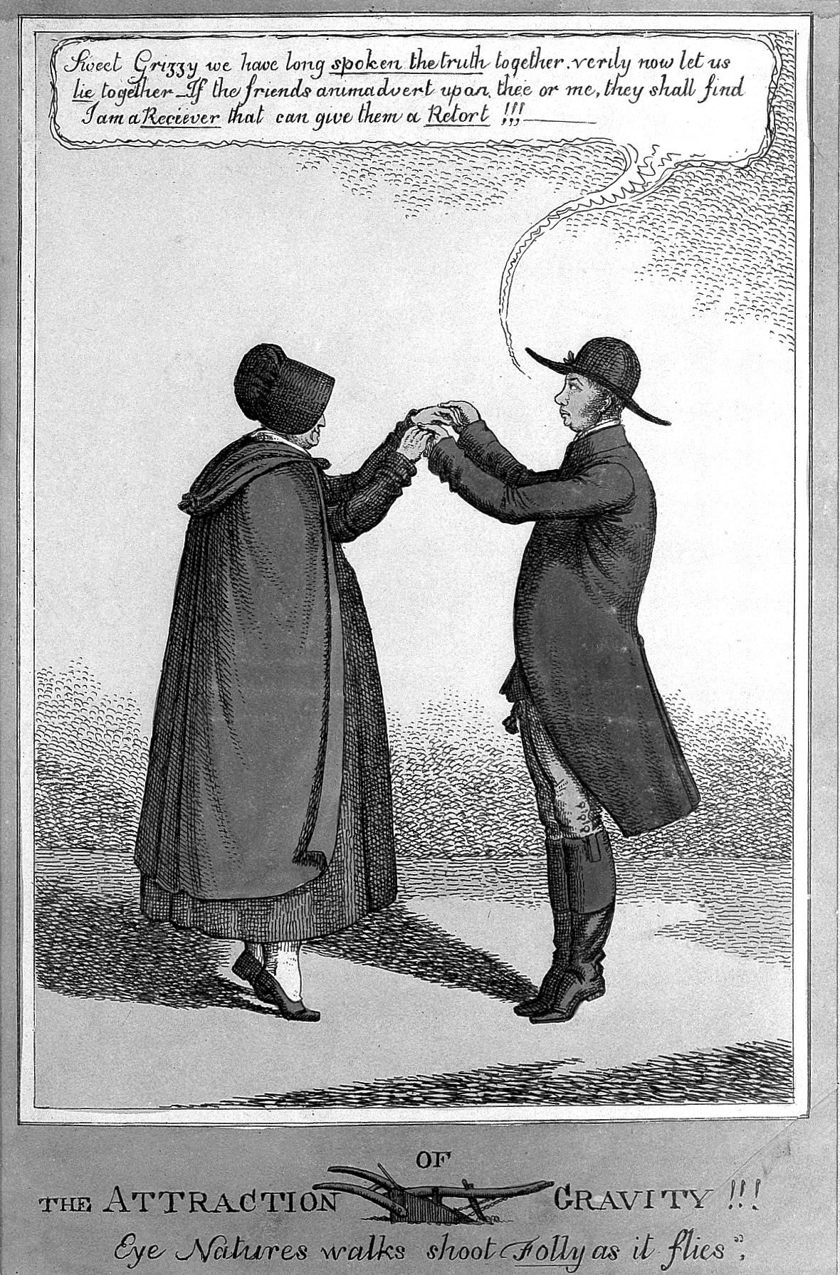 Caricature relating to Allen's marriage to Grizell Birkbeck. The text readsSweet Grizzy we have long spoken the truth together verily now let us lie together. If the friends animadvert upon thee or me, they shall find I am a Receiver that can give them a Retort!!! THE ATTRACTION OF GRAVITY!!! Eye Natures walks shoot folly as it flies Iconographic Collections Keywords: William Allen